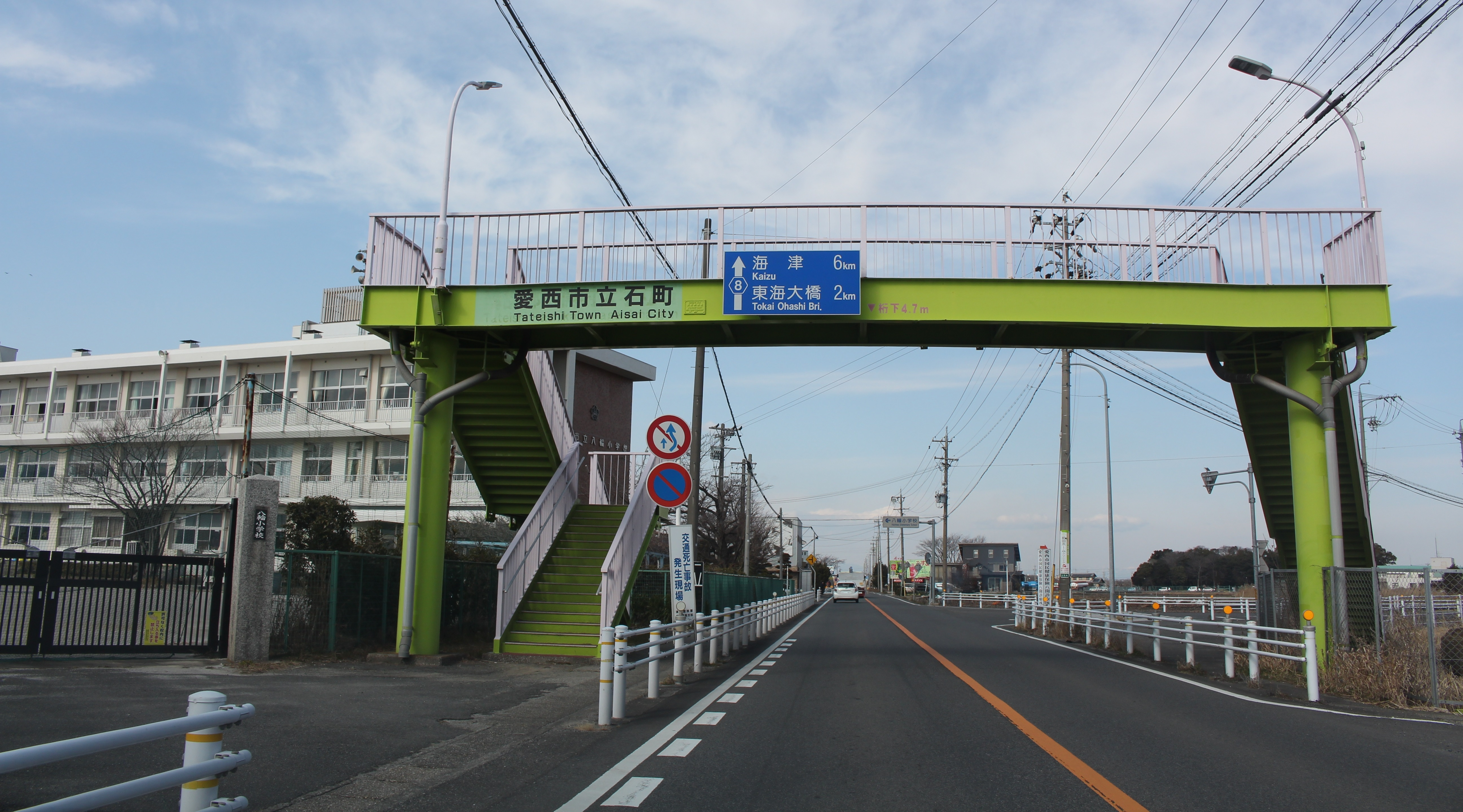 Aichi Prefectural Road Route 8 and Hachiwa elementary school in Aisai, Aichi prefecture, Japan.